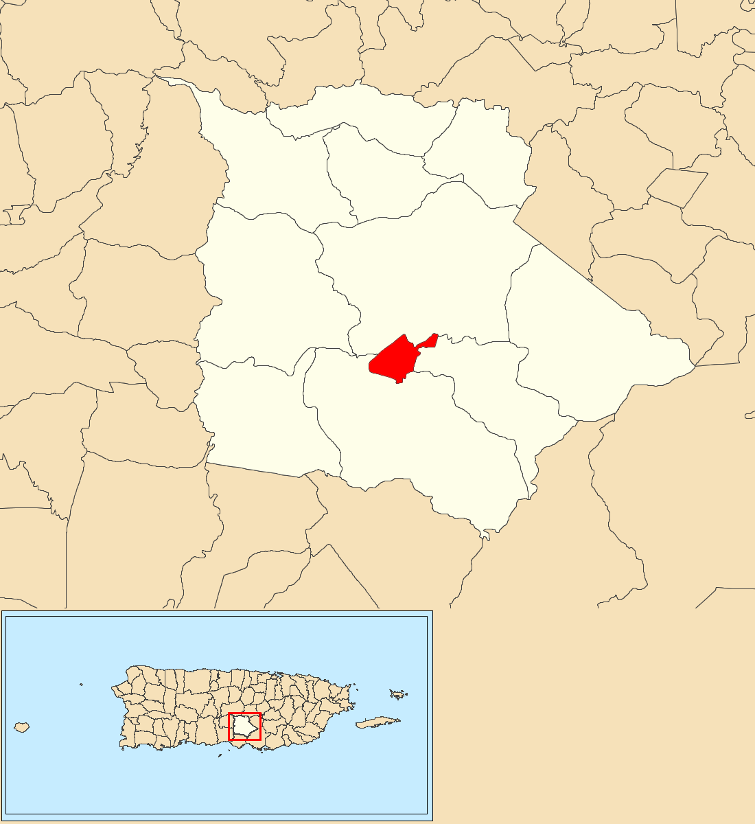 Coamo barrio-pueblo, Coamo, Puerto Rico, locator map